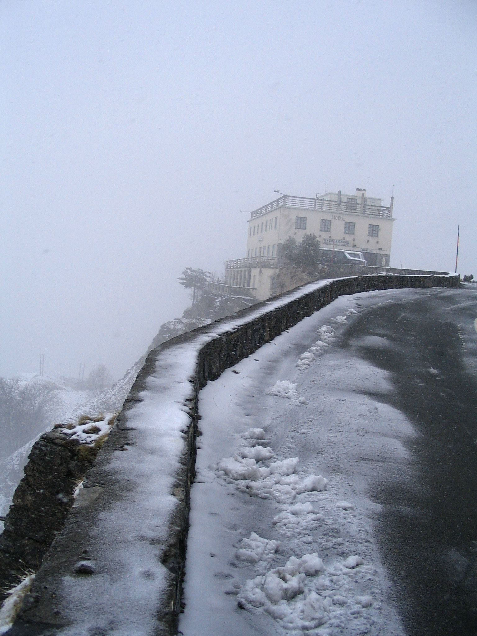 Hotel des Crètes Blanches, Col d'Aubisque, Atlantic Pyrenees, France